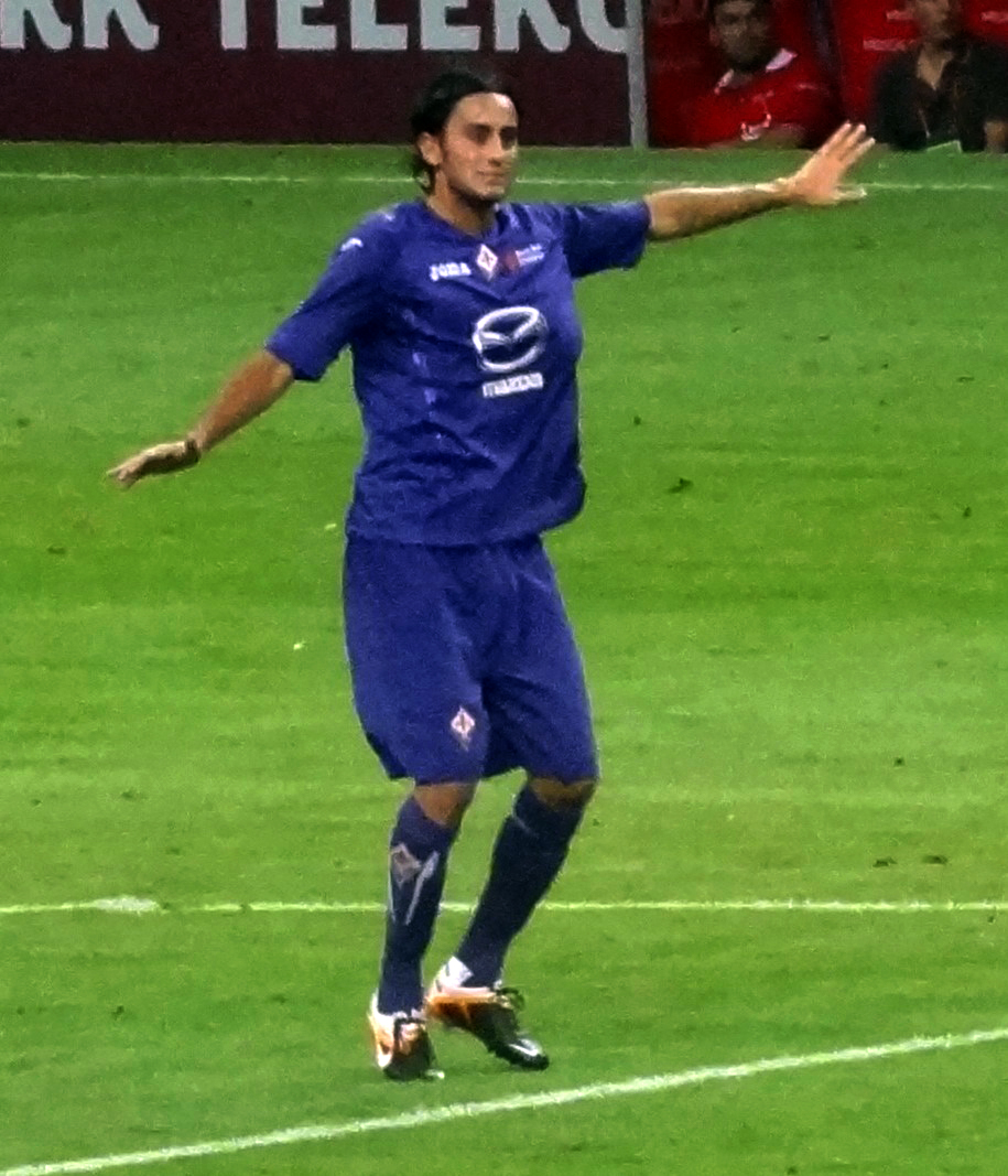 Alberto Aquilani with Fiorentina shirt